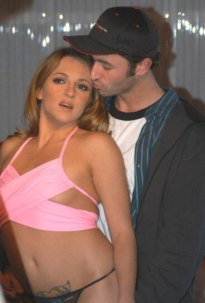 February 28, 2007: Taken on the set of eXXXtra (Egoist Entertainment)